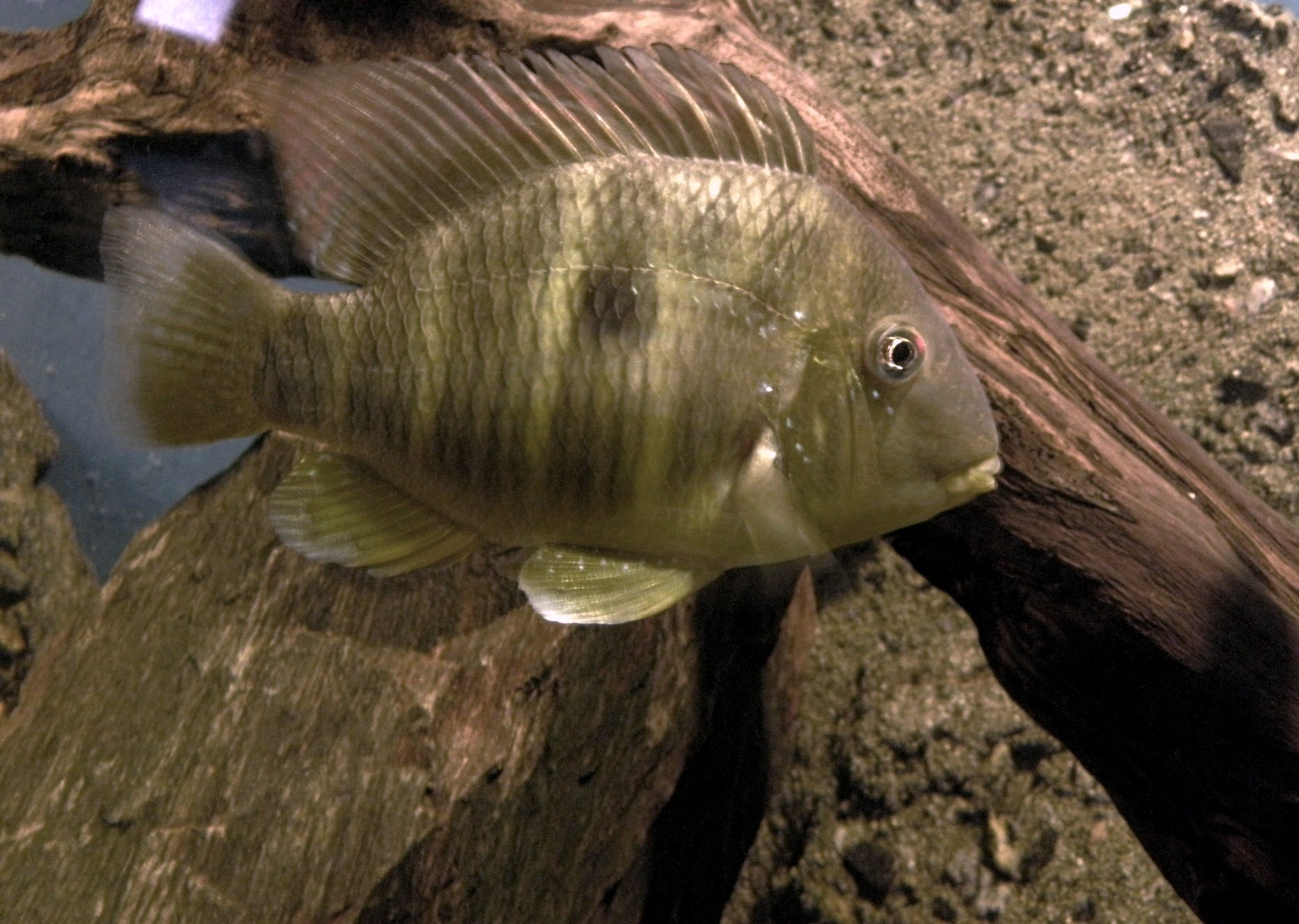 Gymnogeophagus balzanii (adult female).